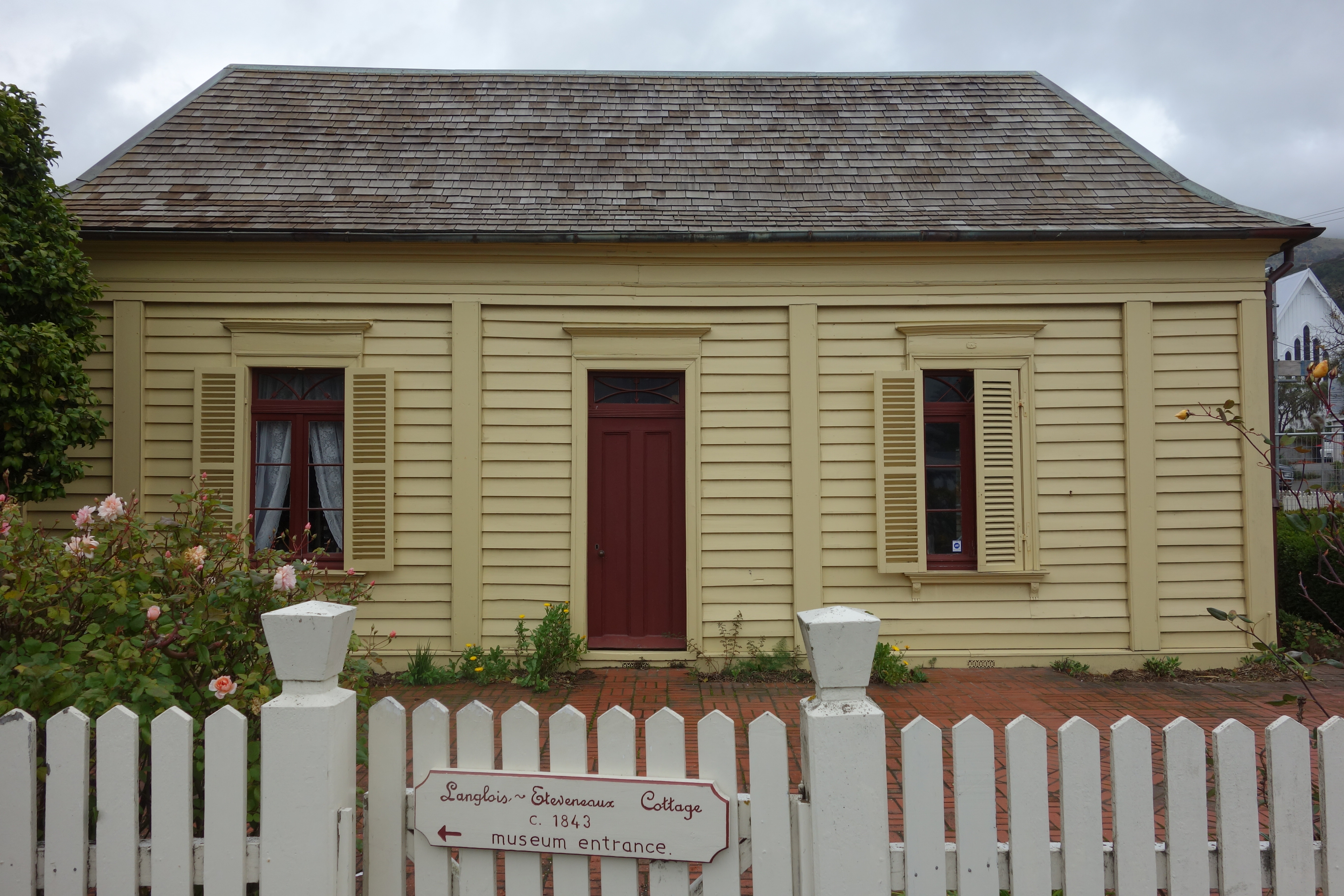 Langlois-Eteveneaux Cottage